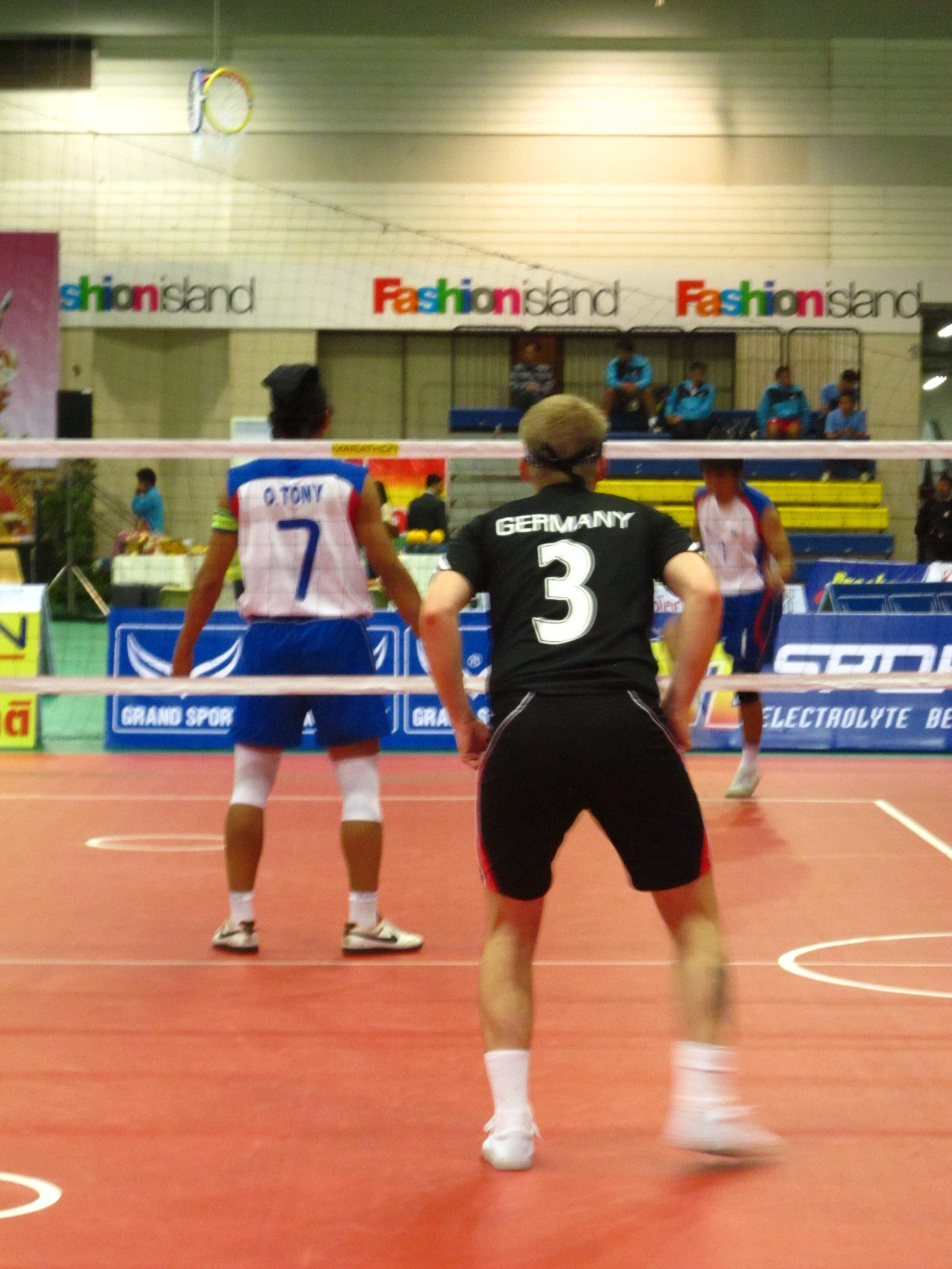 German Team in King's Cup Sepak Takraw 2